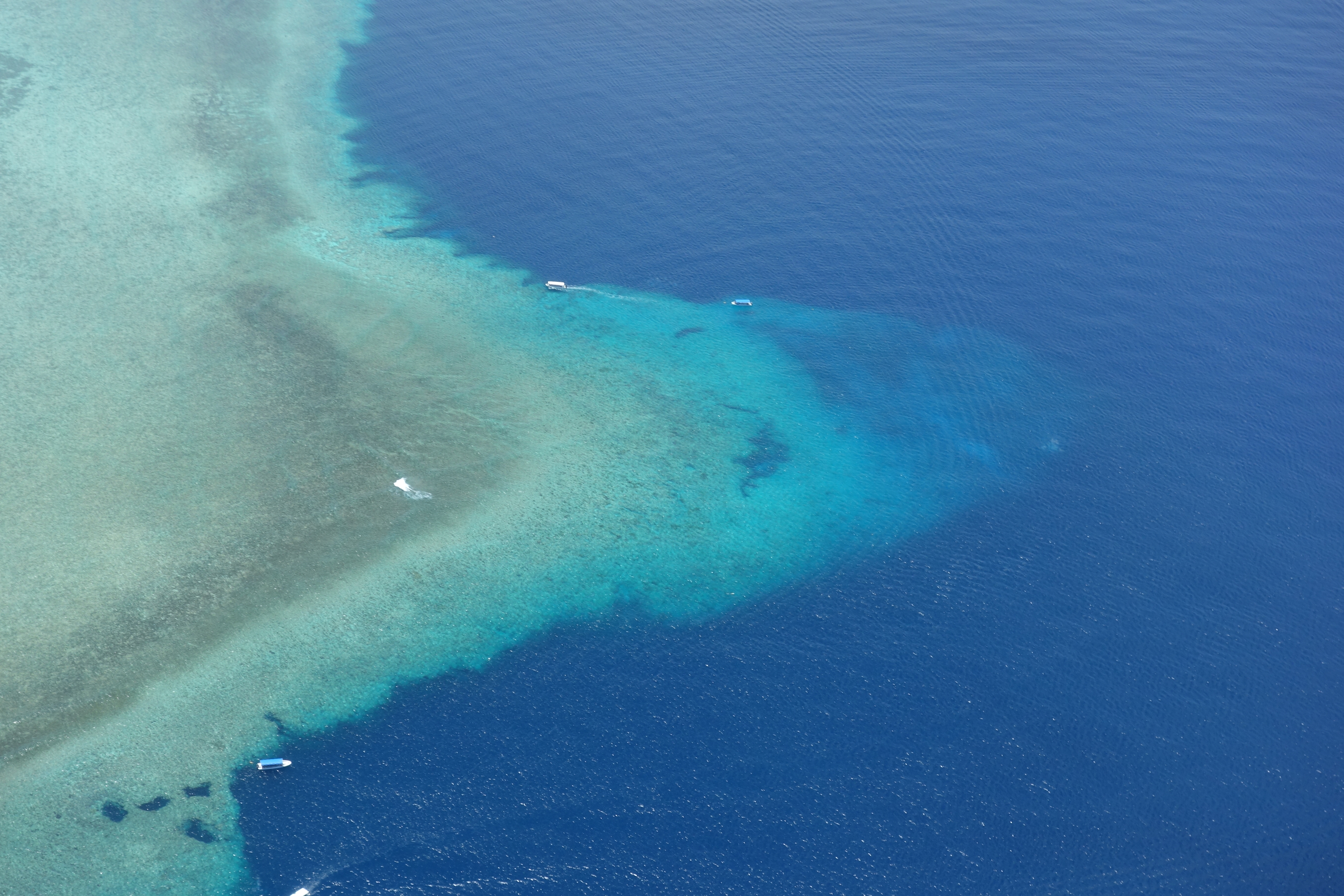 Aerial view of Blue Corner (facing south-east), which is a section of Palau's barrier reef in the south-east. The upper entrances to an underwater cavern called Blue Holes is visible at the bottom-left corner of the photo.